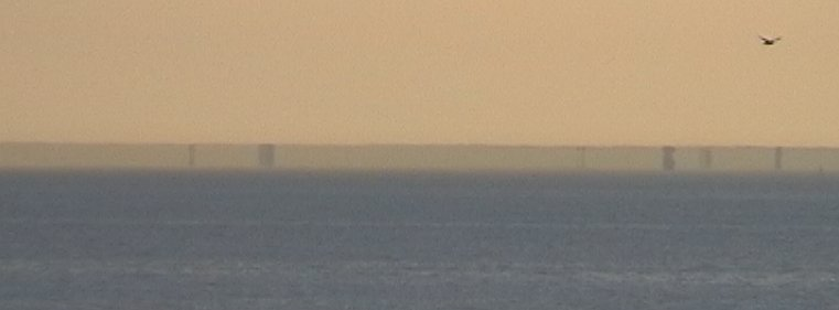 Fata Morgana off the Belgian coast (Middelkerke town). The black bars are probably distant ships that were vertically stretched.